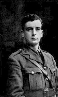 Frontispiece from Raymond, published by George H. Doran (New York)